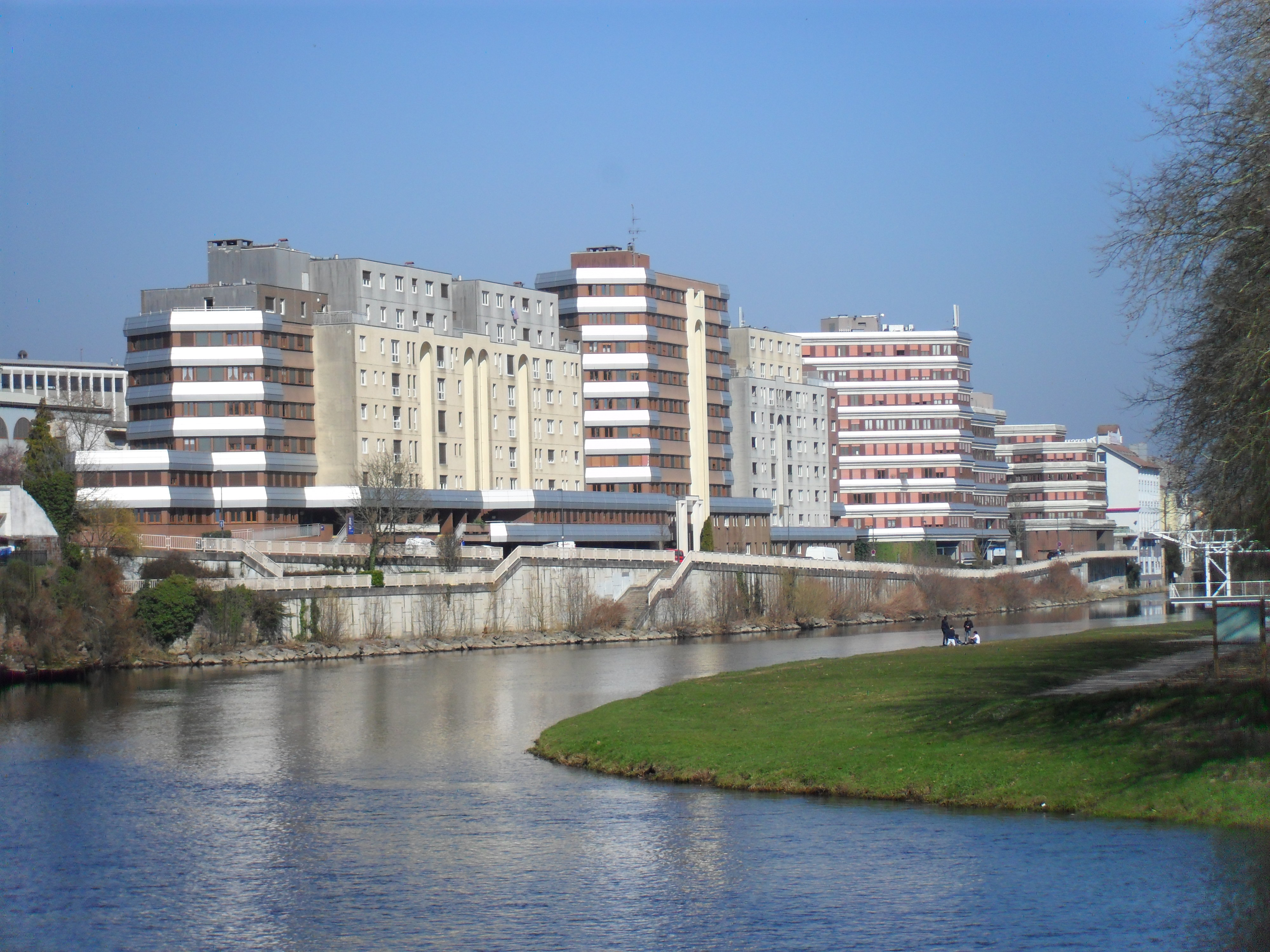 View of the first buildings of the little city of Epinal (Vosges), shot from the concrete footbridge over the Moselle, above the arboretum and municipal garden (right side) and the museum (left side). On the fore front the river Moselle flows in face of the coteau Saint-Antoine (Chantraine) and enters in the center of the city. A larger view is shown in File:Entrée de la Moselle avant Epinal.jpg